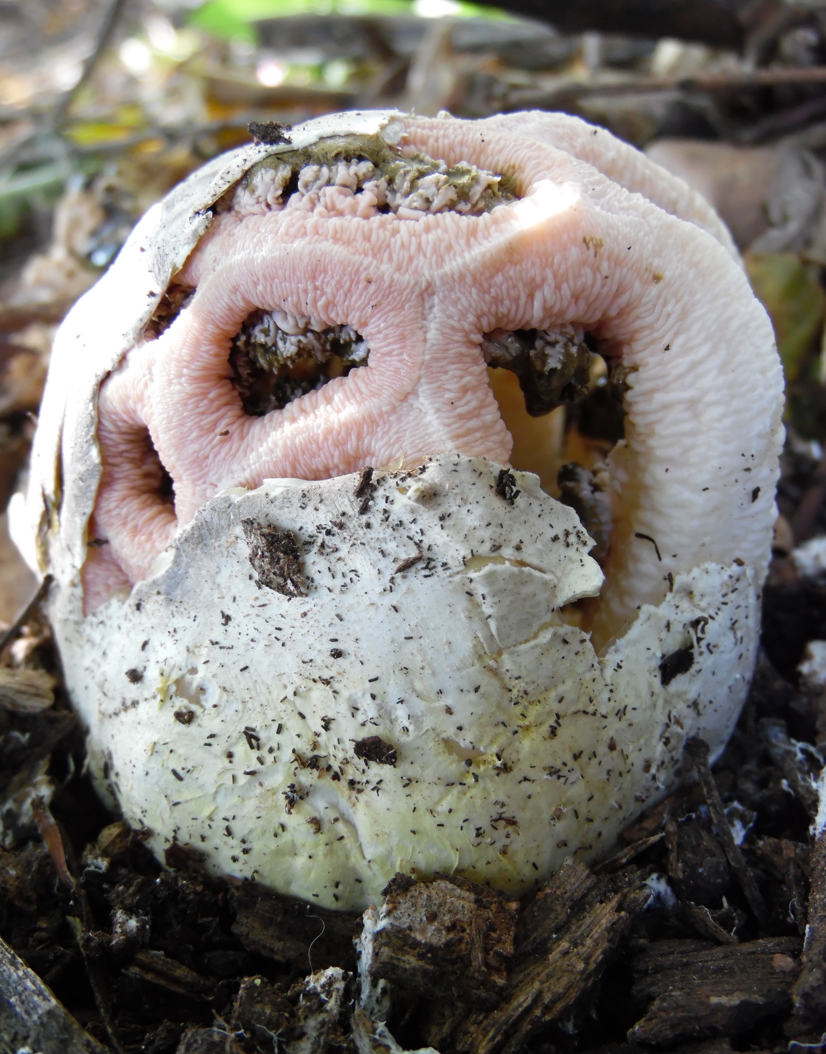 An emerging fruit body of the phalloid fungus Clathrus transvaalensis Eicker & D.A. Reid. Photographed in Kimiad, Moreleta park, Gauteng, South Africa.